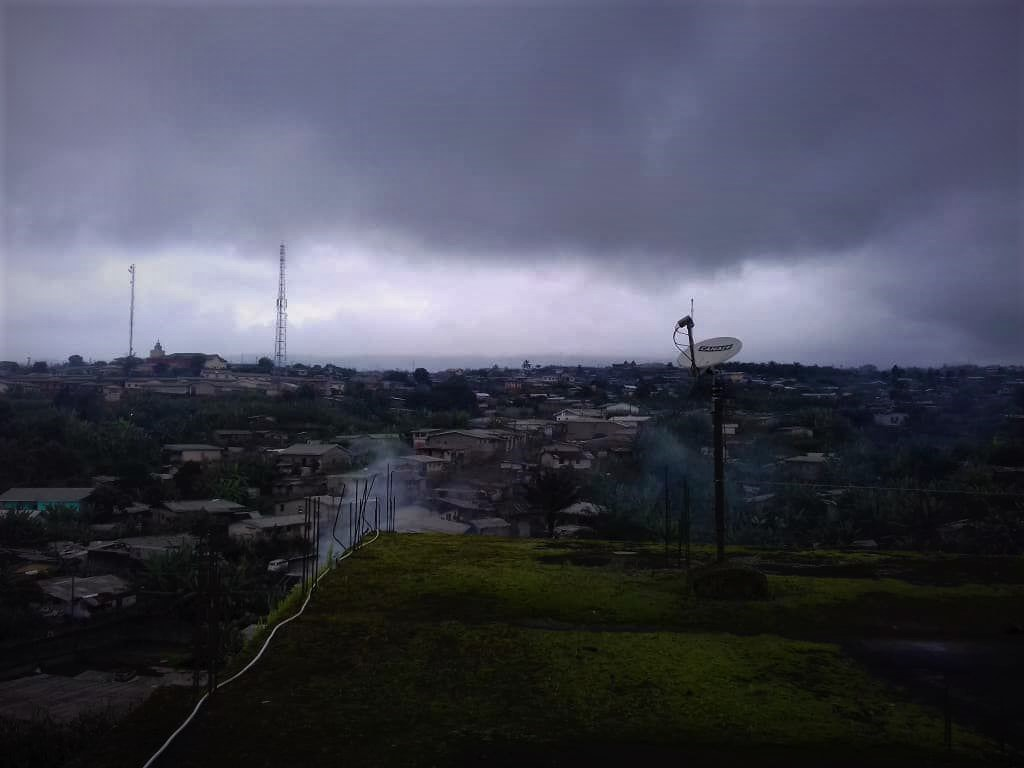 Valley of 2 Kilo, a district well known in Nkongsamba not only for its atmosphere, but also for its valley and its green space.